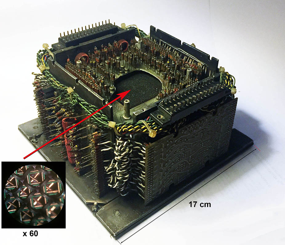 Cyber 6000 PPU Mry showing ferrite nucleus.